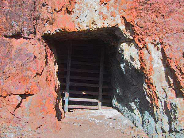 Transwiki approved by: User:Dmcdevit This image was copied from en. The original description was: Gated entrance of an abandoned adit near Medford, Oregon